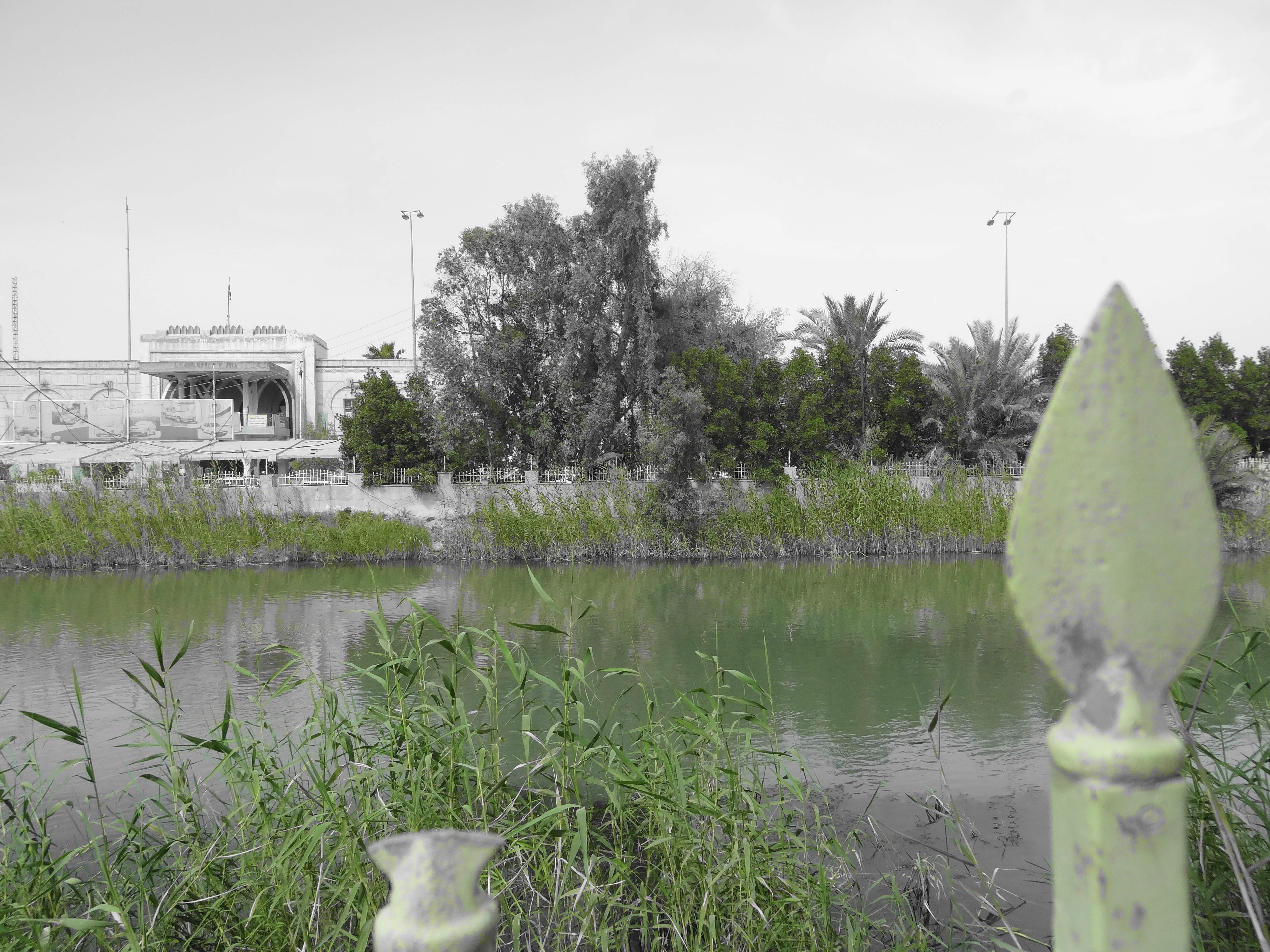 Hello I Sajjad al-Khafaji, from Iraq live in the city of Diwaniyah, the pictures of my city where I live and where the image of the river that passes through the city of Diwaniyah, the people of Diwaniya he calls "the Shatt al-Diwaniya" Template:Wiki Loves Earth Iraq